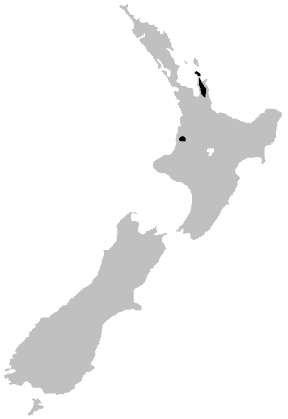 Range of Archeys Frog (Leiopelma archeyi).